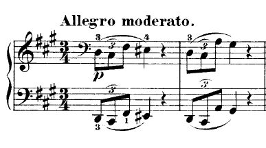 Polonaise F sharp minor op. 44 - F. Chopin